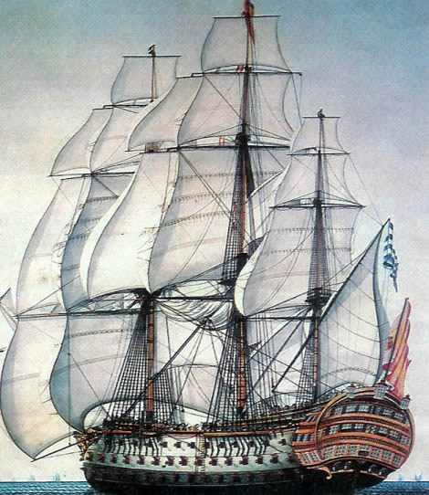 The Spanish warship Holy Trinity (Santísima Trinidad). Known as "El Escorial of the seas", it was the only ship in the Battle of Trafalgar that had four decks and 136 cannons.